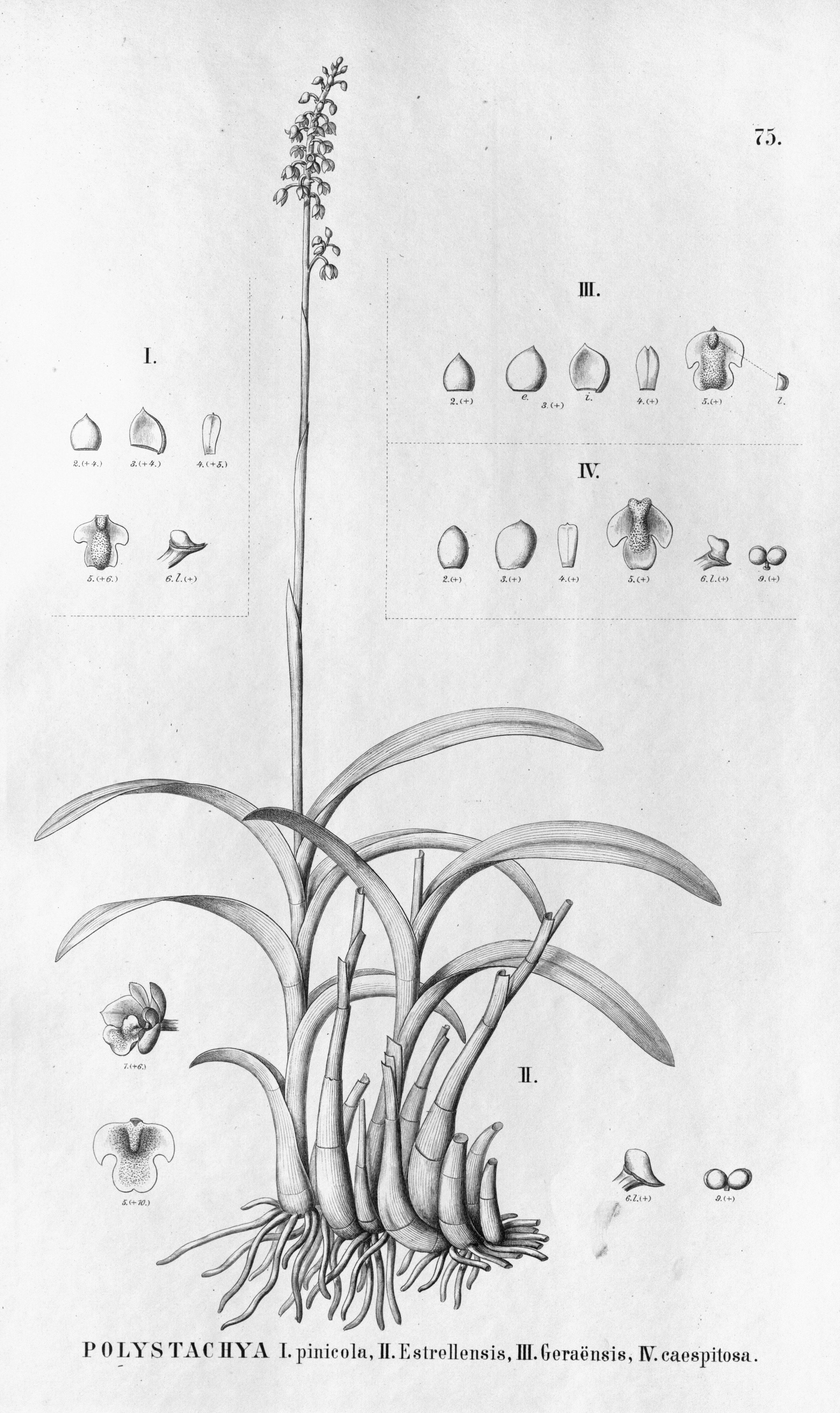 Illustration of I. Polystachya pinicola II. Polystachya estrellensis III. Polystachya geraensis IV. Polystachya caespitosa